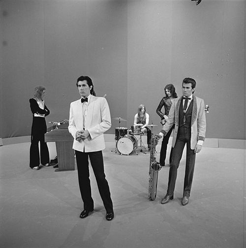 Roxy Music in AVRO's TopPop (Dutch television show) in 1973